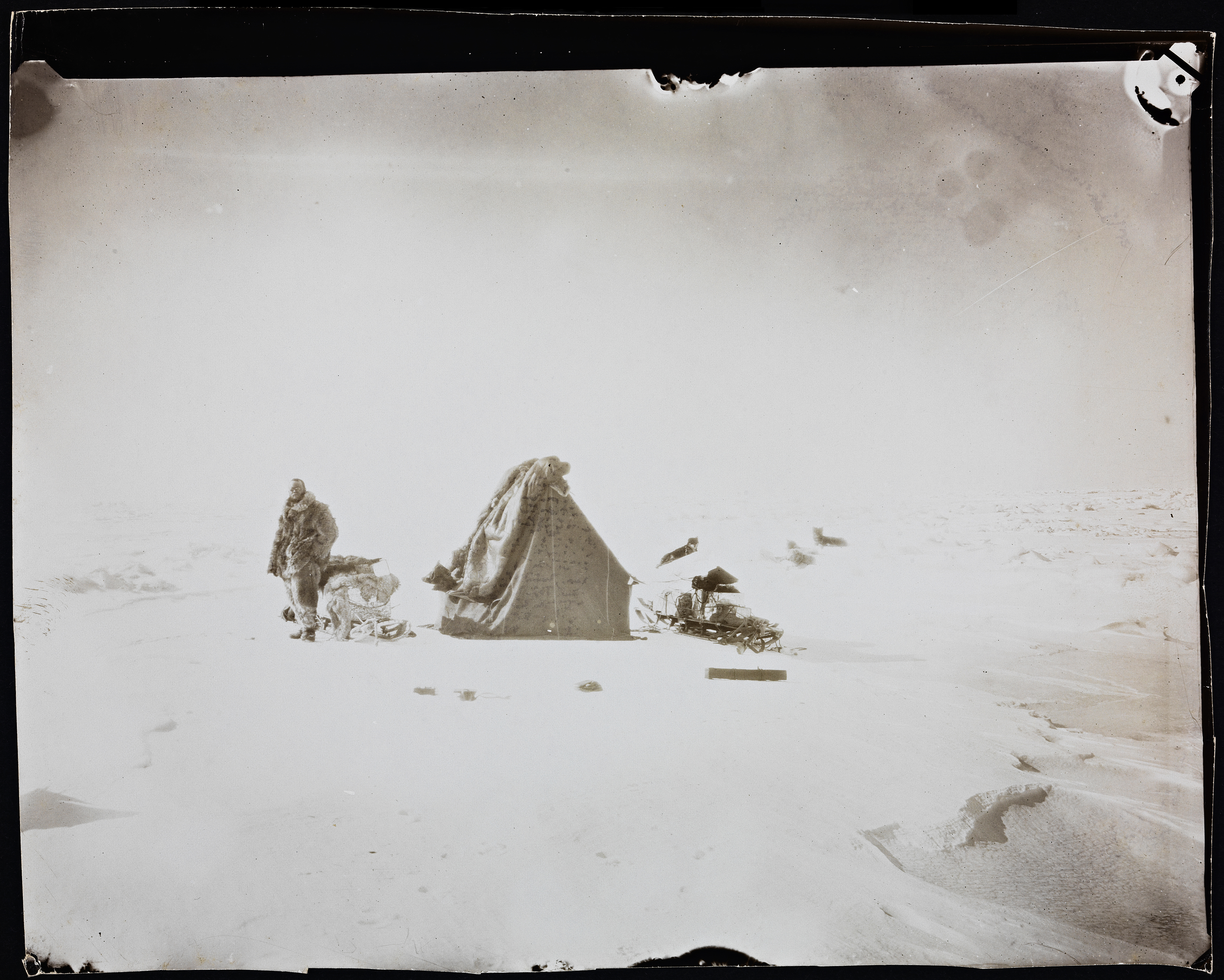 Beskrivelse / Description: 2. Fram-ekspedisjon: Nord-vest-Grønland og øyene nord for Øst-Canada : 1898-1902 / 2nd "Fram" expedition : Northwest Greeland and the islands North of East Canada Dato / Date: ca. 1898/1899 Sted / Place: Canada, Nunavut Fotograf / Photographer: ukjent / unknown Digital kopi av original / Digital copy of original: s/h papirpositiv Eier / Owner Institution: Nasjonalbiblioteket / National Library of Norway Lenke / Link: Bildesignatur / Image Number: bldsa_SVpos_0036